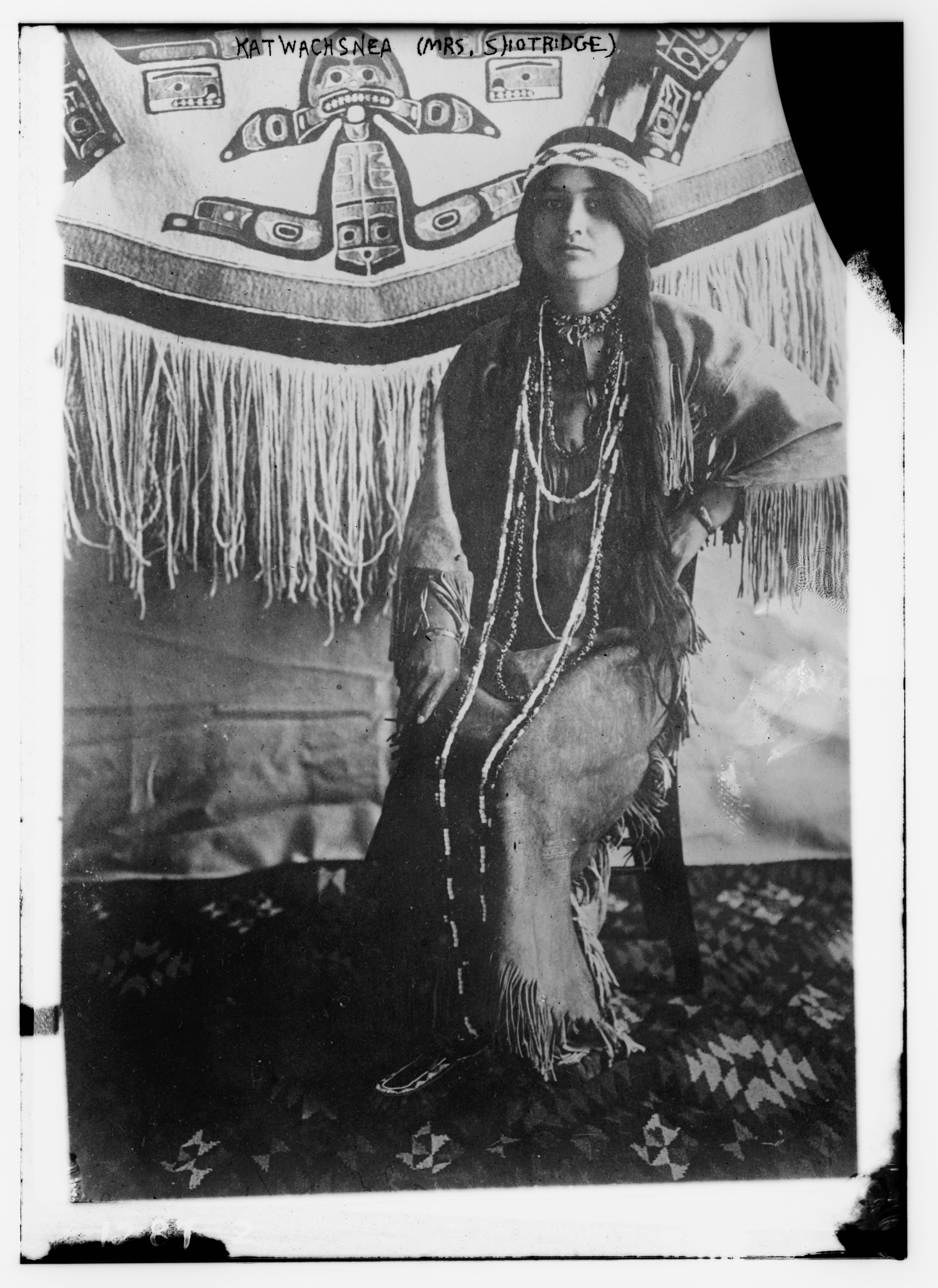 Title: Katwachsnea (Mrs. Shotridge) Abstract/medium: 1 negative : glass ; 5 x 7 in. or smaller.